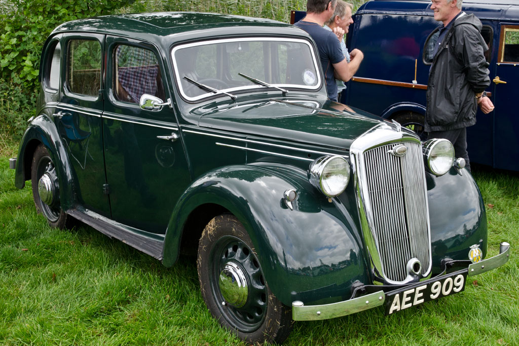 Wolseley Eight(DVLA) first registered 21 November 1947, 919 ccCholmondeley Classic Car & Bike Show 02/09/2012 Wolseley Series III - Eight Production Period Mar 1946 - 1948